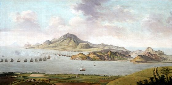 Battle of St. Kitts, January 1782.